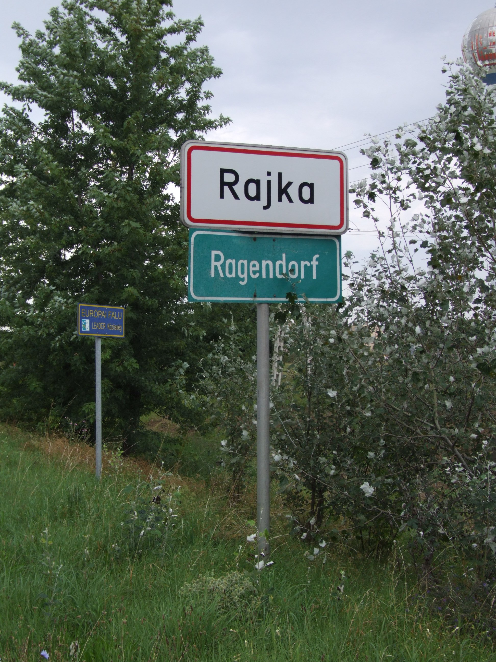 Rajka (Ragendorf) - Hungary. Hungarian-german city limit